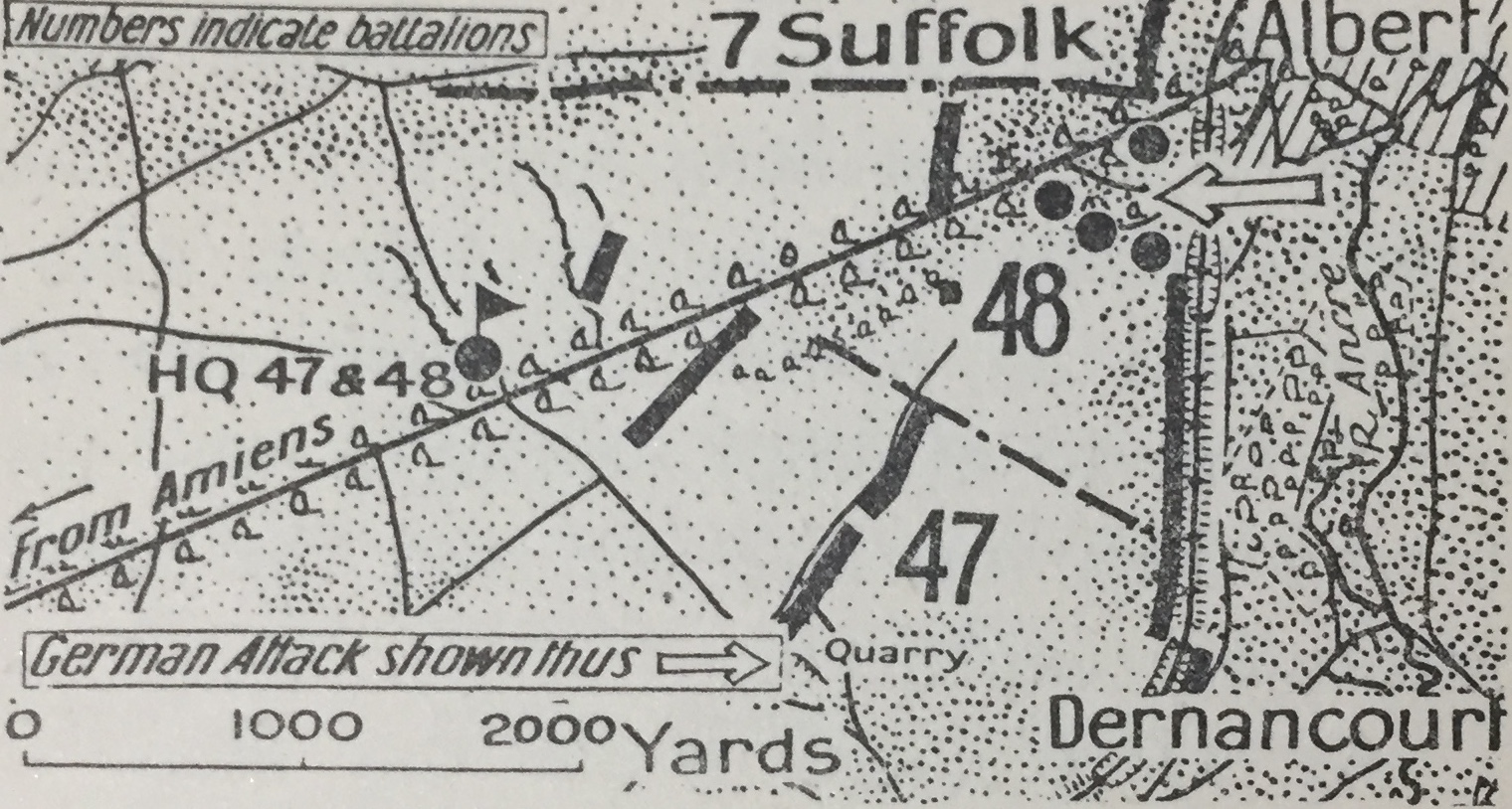 Map of the main attack against the 48th Battalion during the Second Battle of Dernancourt 1918